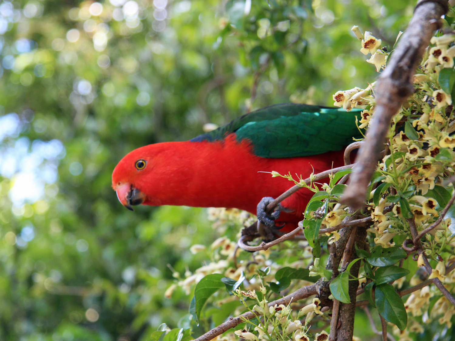 Male King Parrot in southeast Queensland